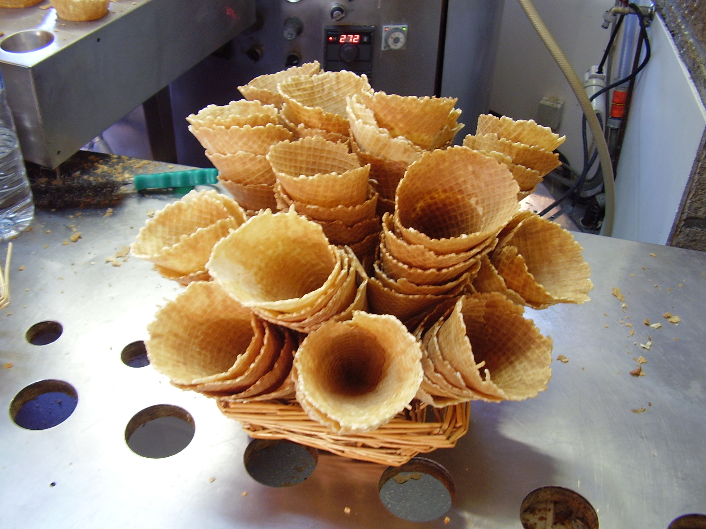 Waffles, for icedream, France, Bretagne, Carnac Plage